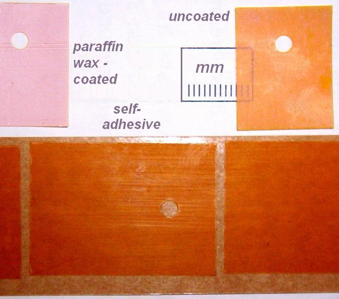 Kapton thermal pads for insulated mounting of power semiconductors on a heat sink